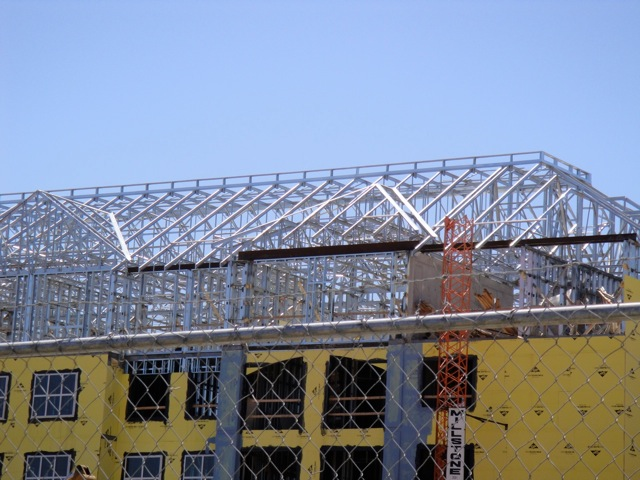 CFS framed building